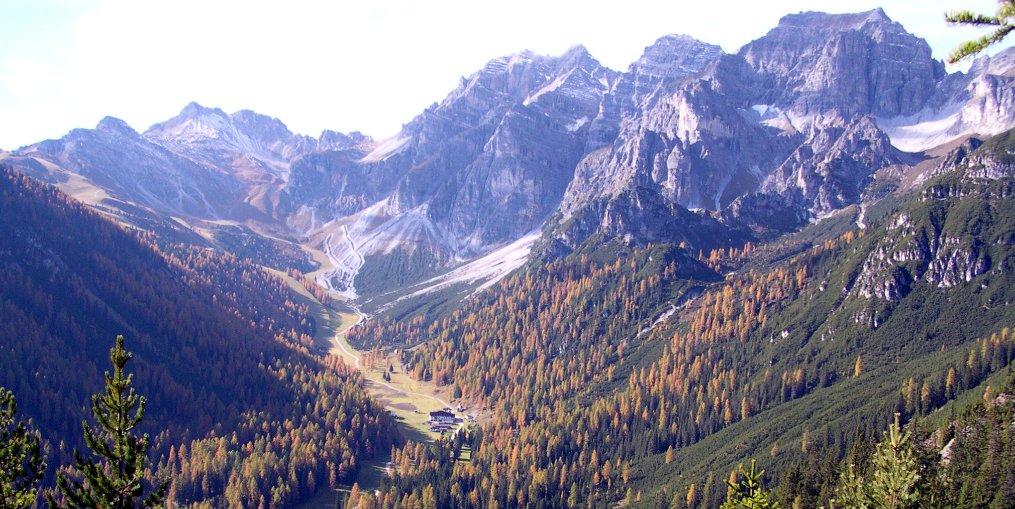 Schlicker Alm from North. right: Kalkkögel (Schlicker Seespitze, Riepenwand, Große Ochsenwand